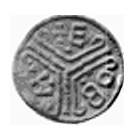 Coin of King Coenwulf of Mercia.